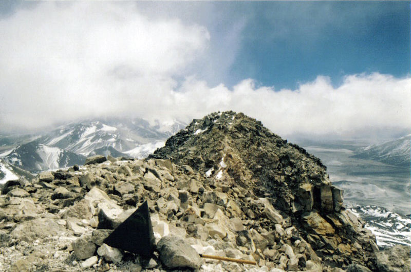 View of the Chilean summit of Ojos del Salado, the highest volcano of the world, from the Chilean summit. It has been made available to Wikipedia by its author, Janne Corax.